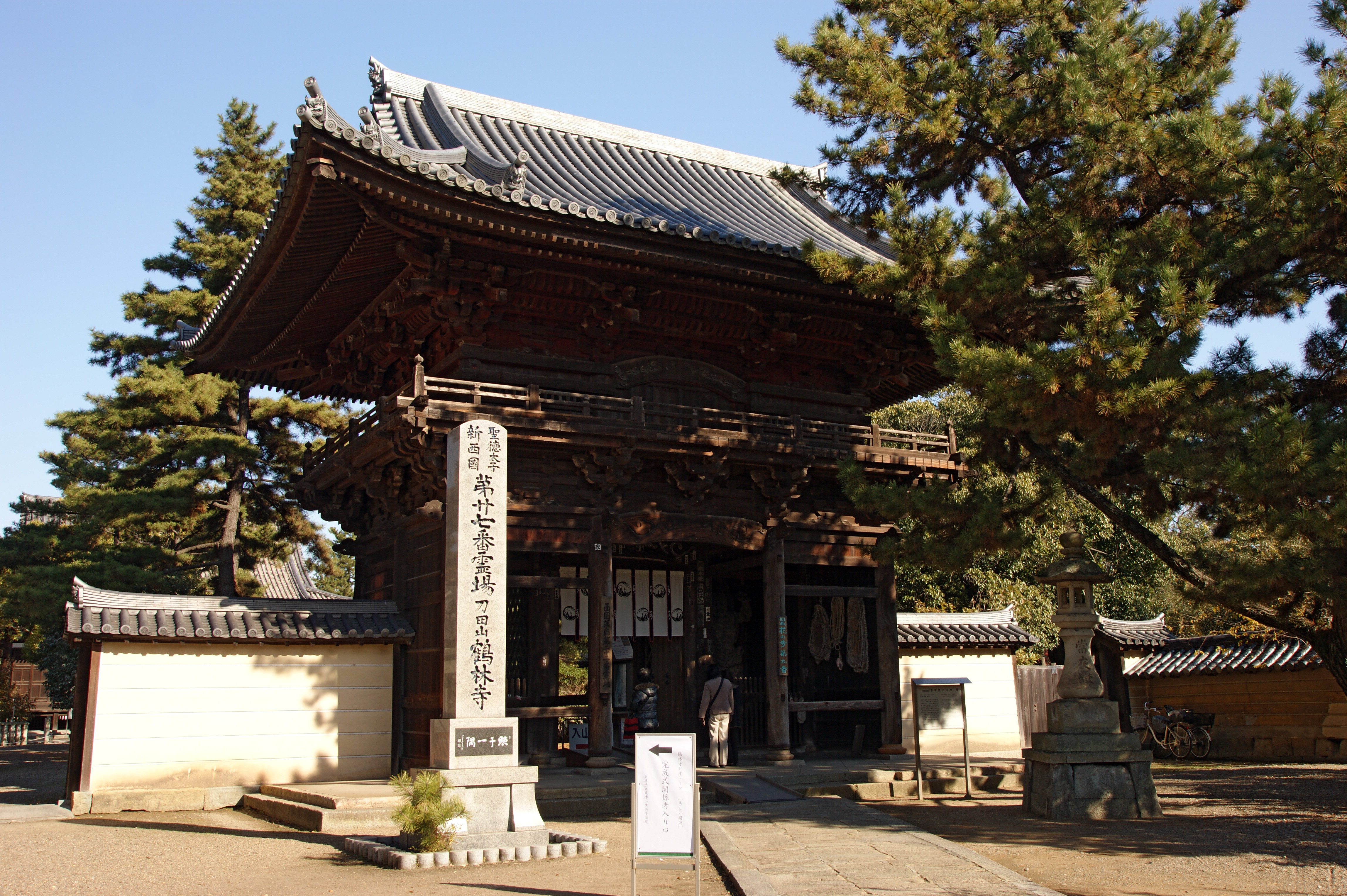 Kakurinji, Kakogawa, Hyogo prefecture, Japan